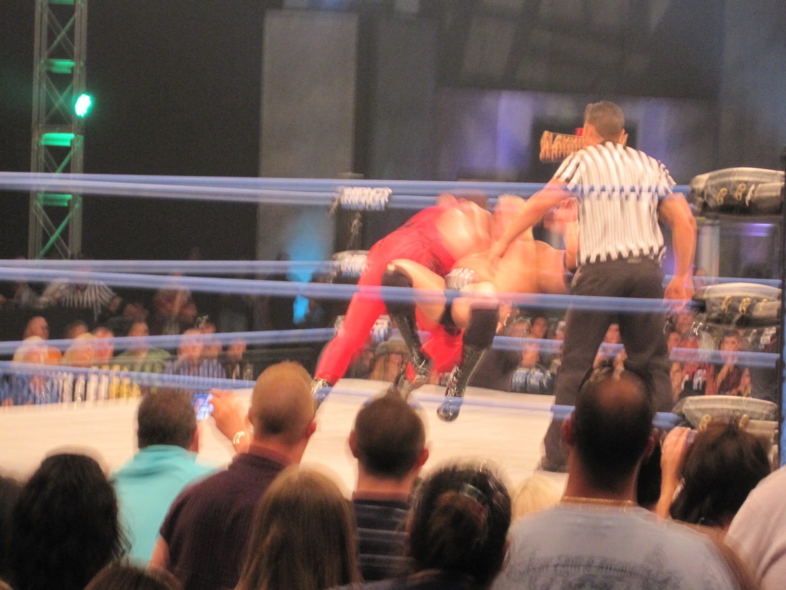 Sunday, June 12, 2011. Universal Orlando